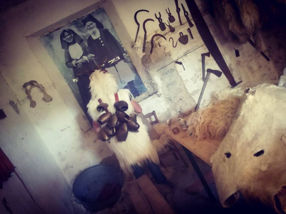 Gairo, scene from Su Maimulu, the old carnival